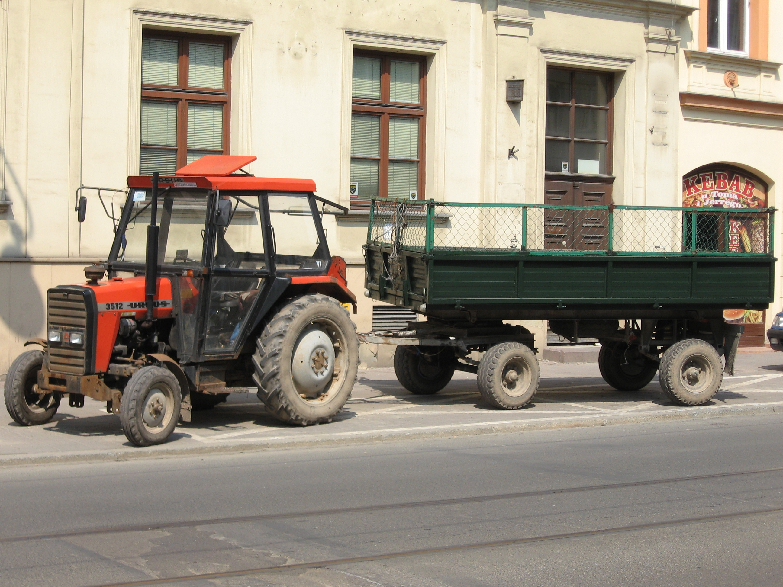 Ursus 3512 towing a trailer on Marszałka Józefa Piłsudskiego street in Kraków.